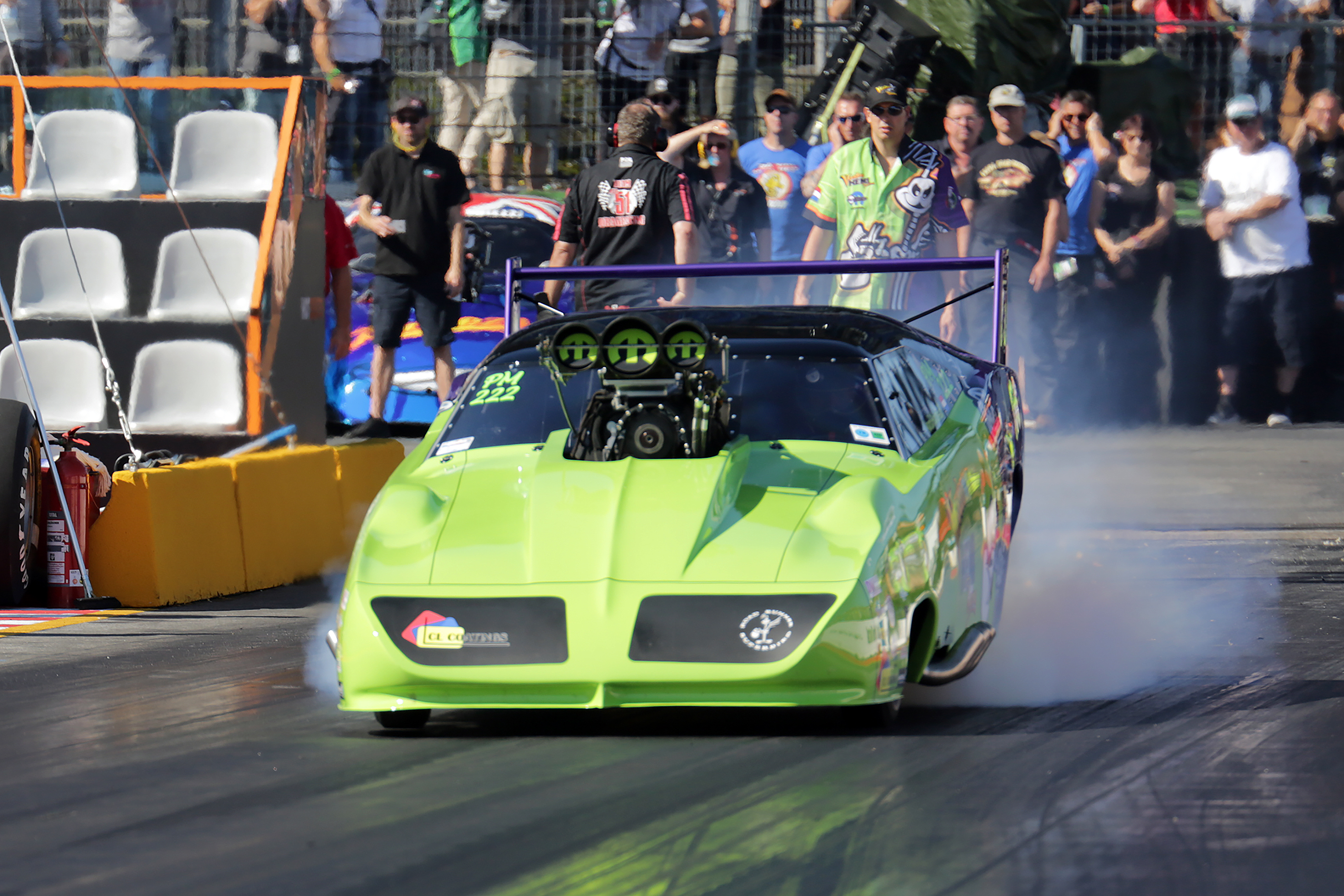 FIA Pro Modified Car. Driver: Marck Harteveld (NED). Nitrolympx 2019